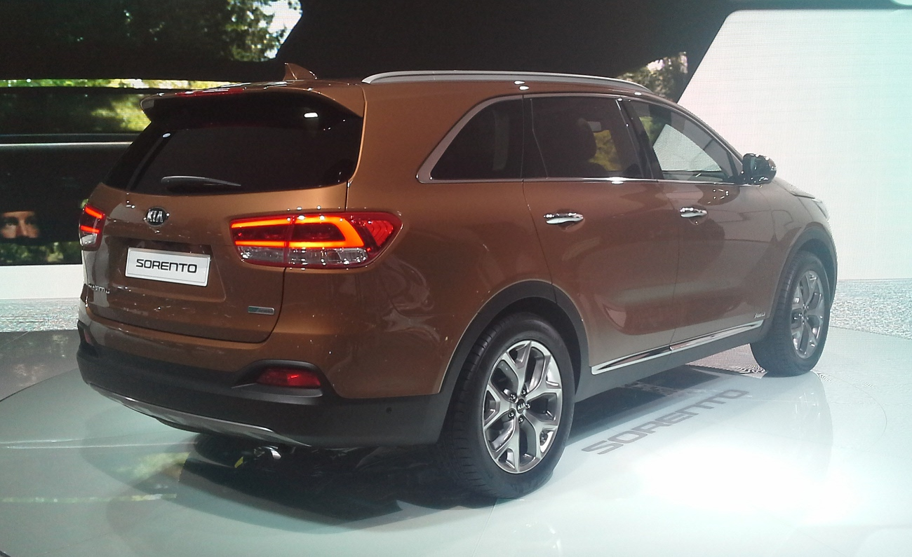 Kia Sorento UM photographed at the Mondial de l'Automobile de Paris 2014 in Paris, France.